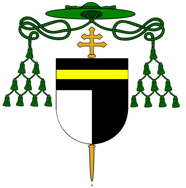 Coat of arms of Wenzel Leopold Chlumčanský von Přestavlk, Archbishop of Prague 1815-1830